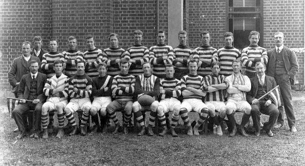 Team of Australian football squad Mansfield FC